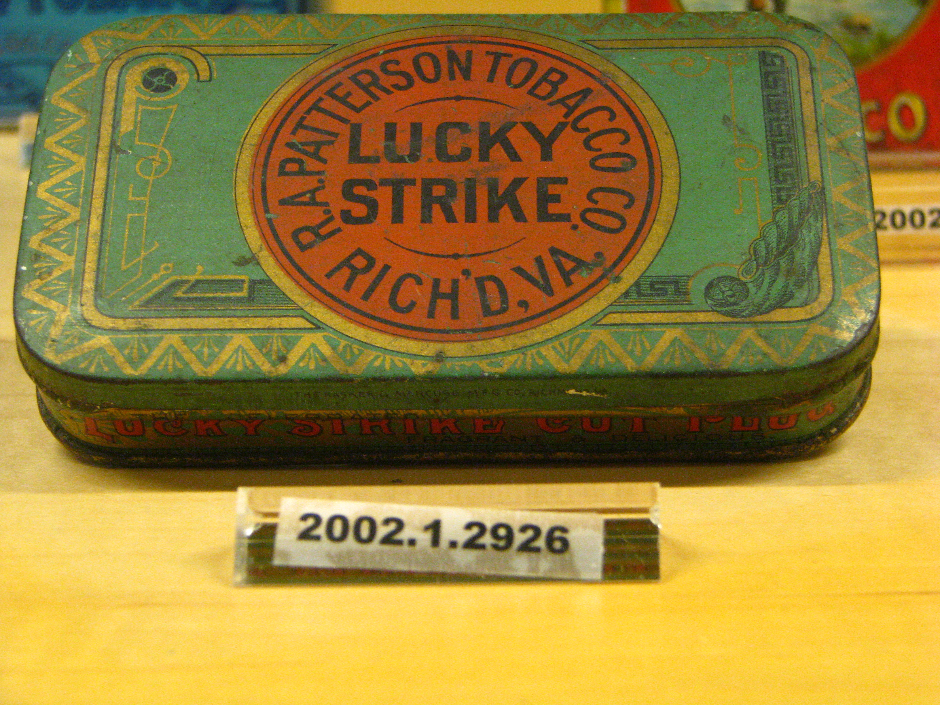 Lucky Strike tobacco tin, early 20th Century. Metal: 4 1/2 x 2 3/4 x 3/4 in. Gift of Bella C. Landauer. New-York Historical Society, 2002.1.2926. Wikipedia Loves Art at the New-York Historical Society This photo of item # 2002.1.2926 at the New-York Historical Society was contributed under the team name "the_adverse_possessors" as part of the Wikipedia Loves Art project in February 2009. New-York Historical Society The original photograph on Flickr was taken by _cck_—please add a comment to the original Flickr page whenever a use has been made on Wikipedia or another project. Project galleries on Flickr: this institution, this team